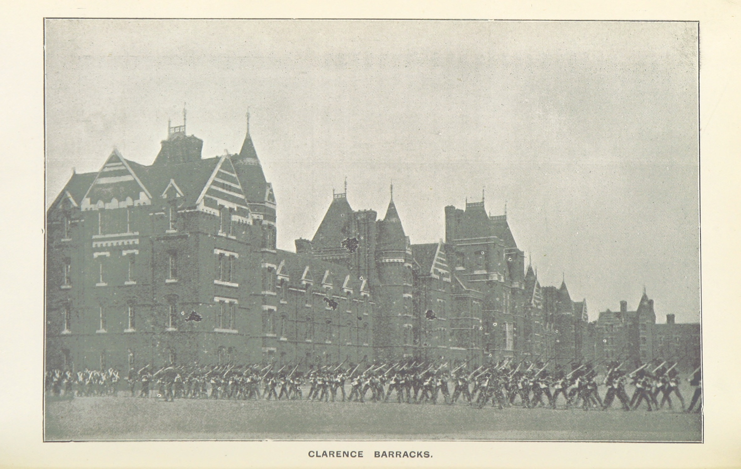 Clarence Barracks, Portsmouth was built c.1890-1897 to accommodate six garrison battalions of the Royal Artillery